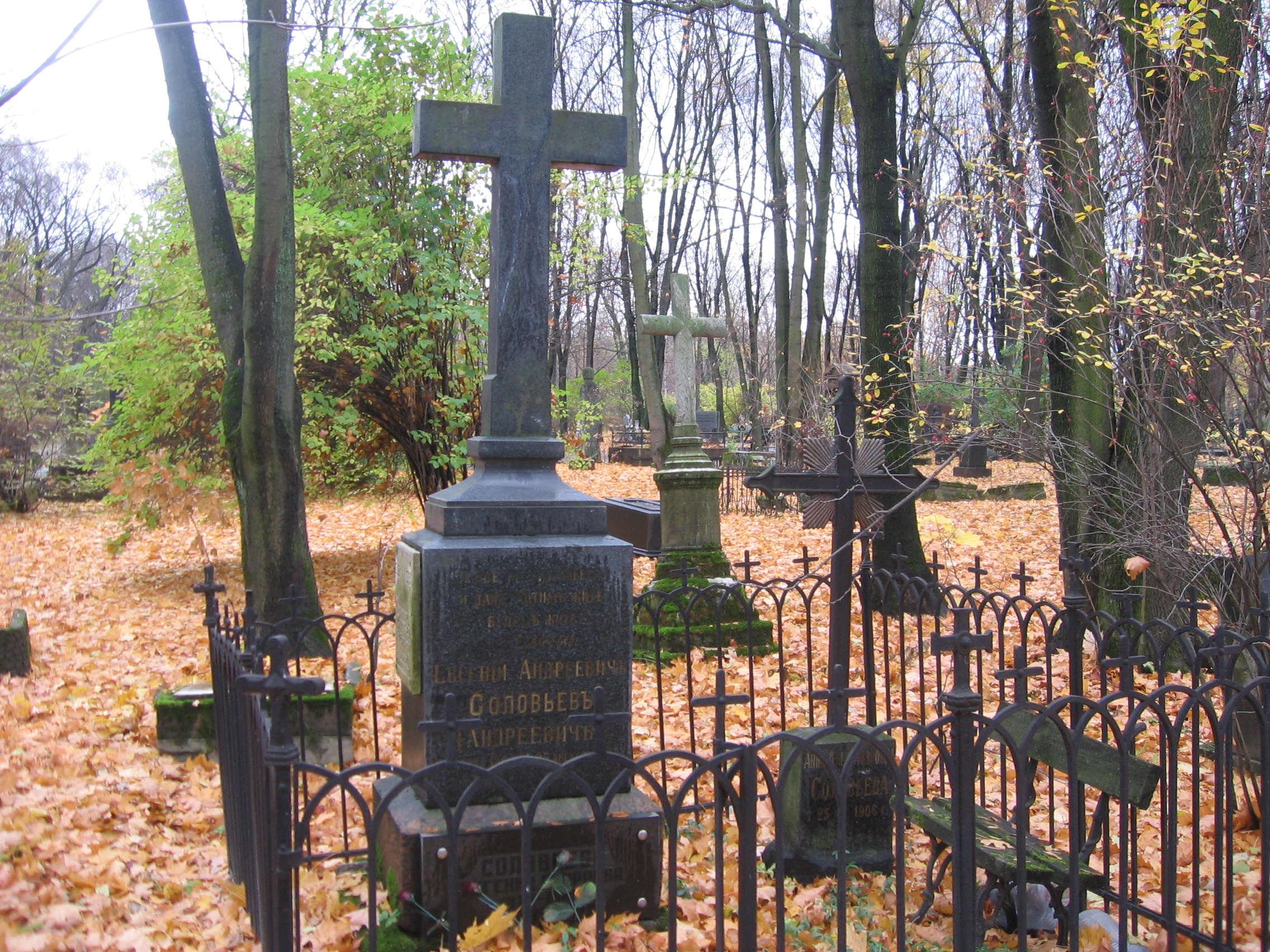 Grave of Eugeny Solovyov